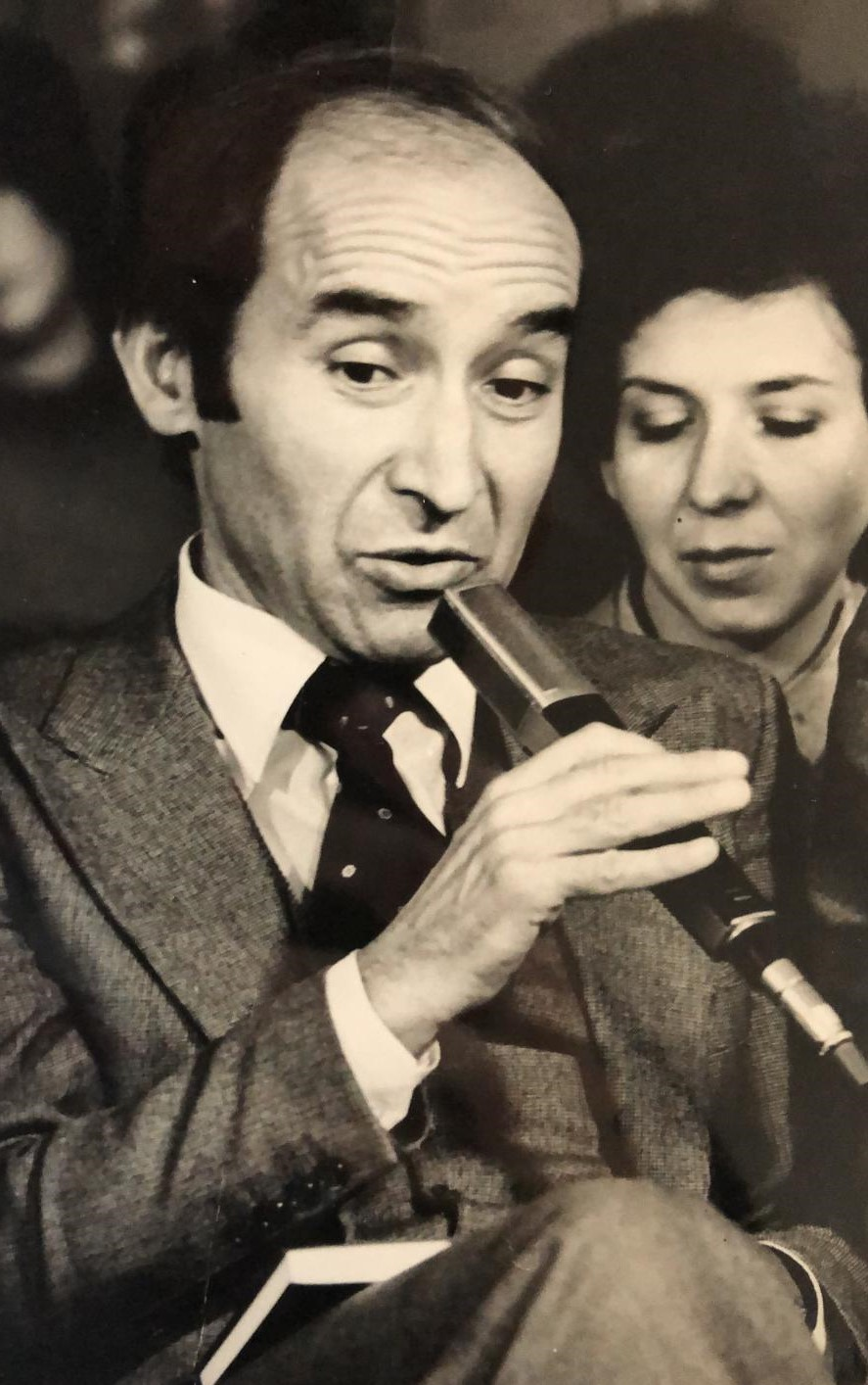 Dragan Kolundžija. The photo can be found in the Society for Culture, Art and International Cooperation Adligat in Belgrade, Serbia. Српски (ћирилица): Драган Колунџија. Фотографија се налази у Удружењу за културу, уметност и међународну сарадњу „Адлигат” у Београду.